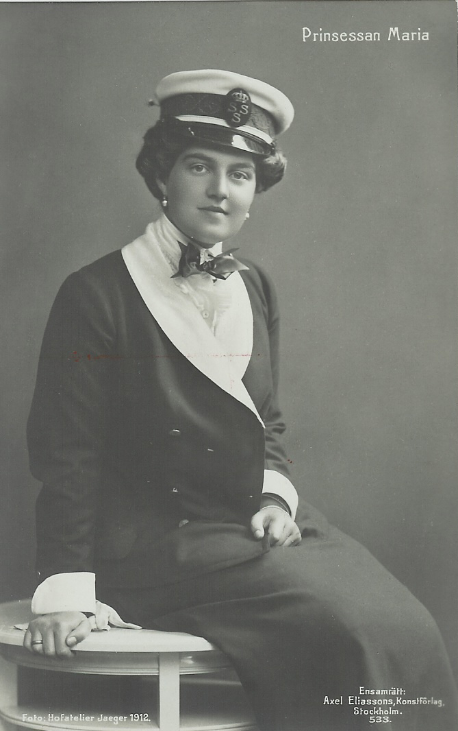 Grand Duchess Maria Pavlovna of Russia (1890-1958)